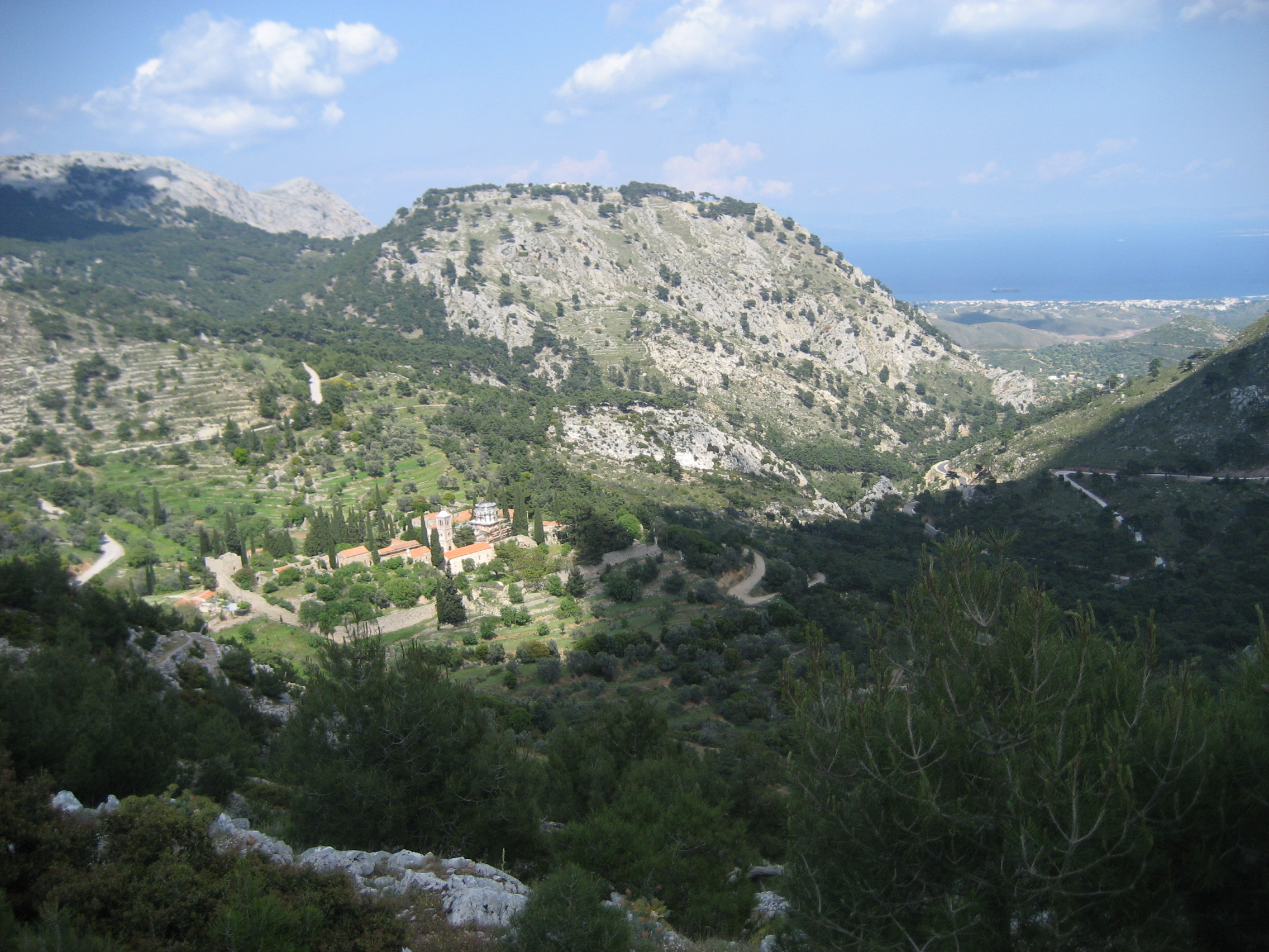 Monastery of Nea Moni of Chios. View to the east, in the background the Aegean Sea and Asia Minor (Turkey).